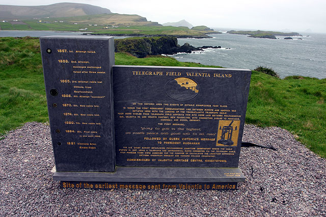 Summary: Telegraph Field, Valentia Island, Ireland: Site of the earliest message sent from Ireland to North America